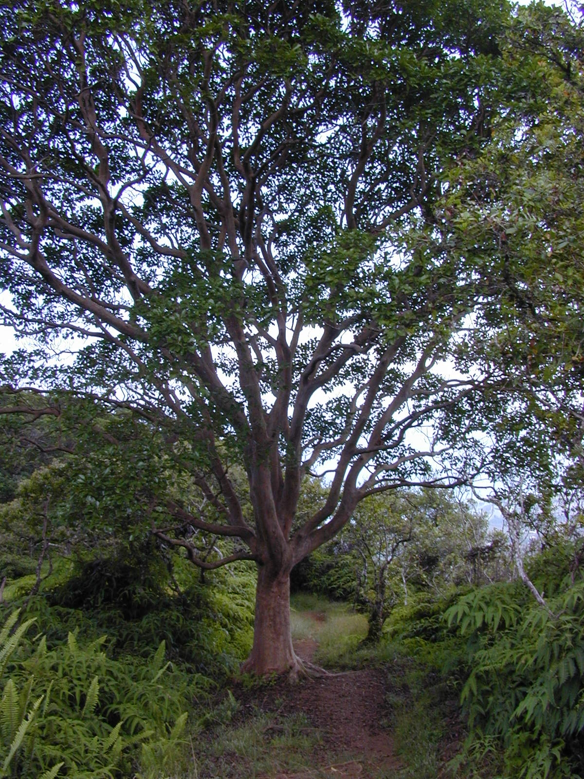 Psidium cattleianum (habit). Location: Maui, Waihee Ridge Trail